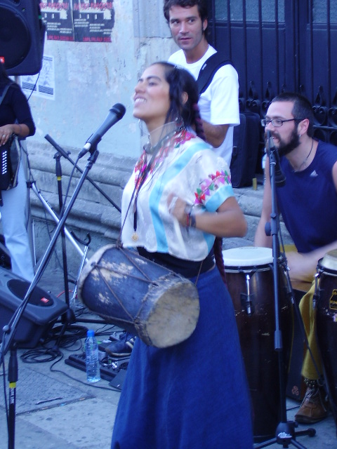 Lila Downs performing "Soy pescador".